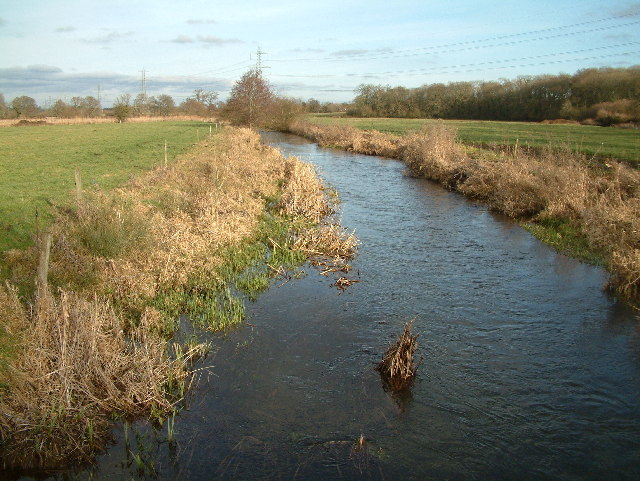 River Allen, Dorset. The public footpath crosses the River Allen here, close to Wilksworth Farm.